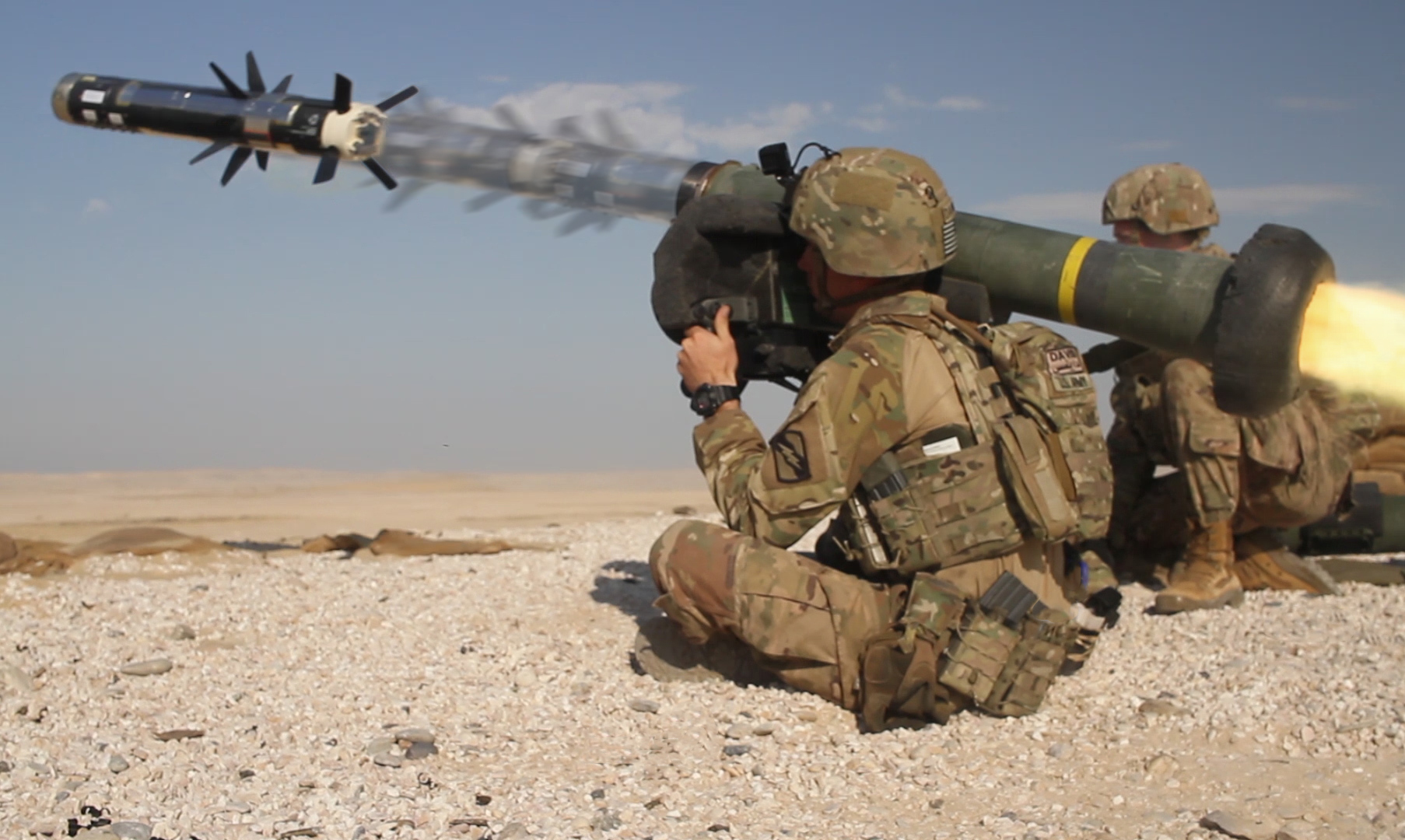 U.S. Army Spc. Colton Davis, an infantryman assigned to Company C, 2nd Battalion, 198th Armor Regiment, 155th Armored Brigade Combat Team, Mississippi Army National Guard, fires a Javelin shoulder-fired anti-tank missile during a combined arms live fire exercise as part of Exercise Eastern Action 2019 at Al-Ghalail Range in Qatar, Nov. 14, 2018. The multiple exposure photo demonstrates the multiple stages the missile goes through after it is fired by Davis. This is a multiple-exposure photo. (U.S. Army National Guard photo illustration by Spc. Jovi Prevot)